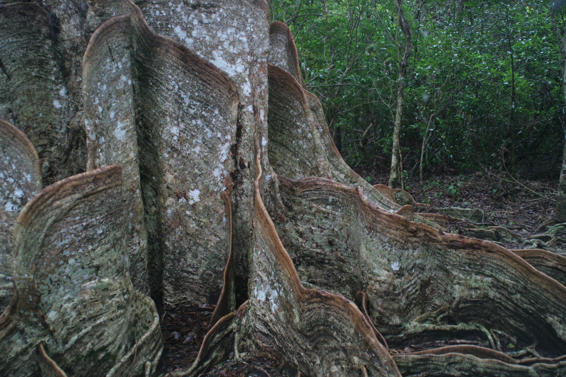 Heritiera littoralis in Iriomote Island, Okinawa Prefecture, Japan